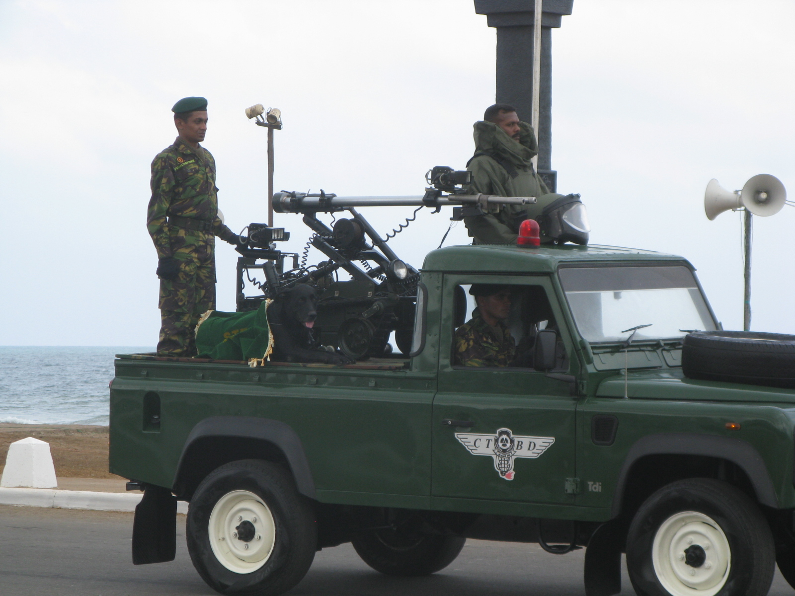 Counter-Terrorist Bomb Disposal Unit - Sri Lanka Army